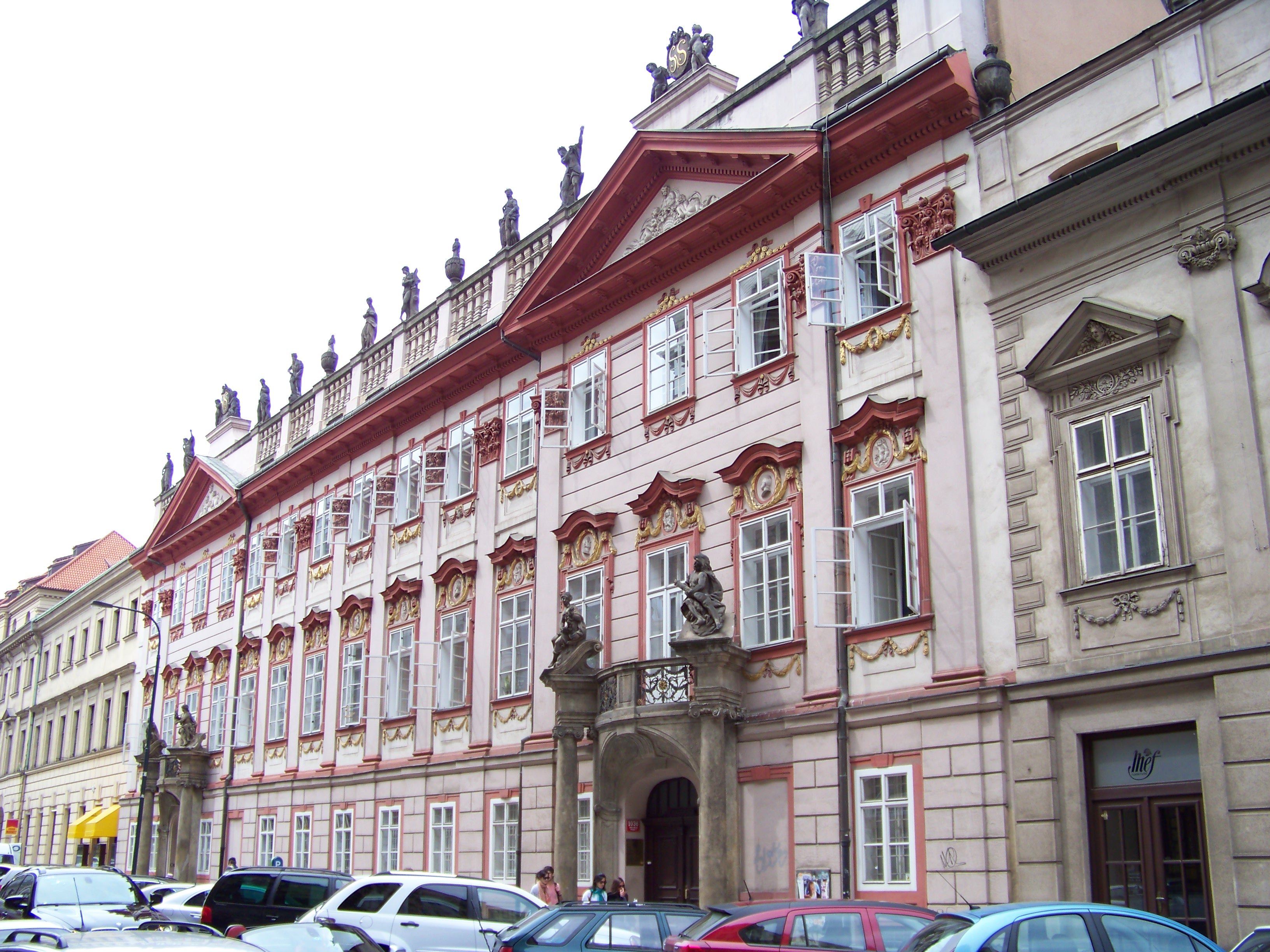 New Town, Prague, the Czech Republic. Hybernská street, Swéerts-Sporck Palace.